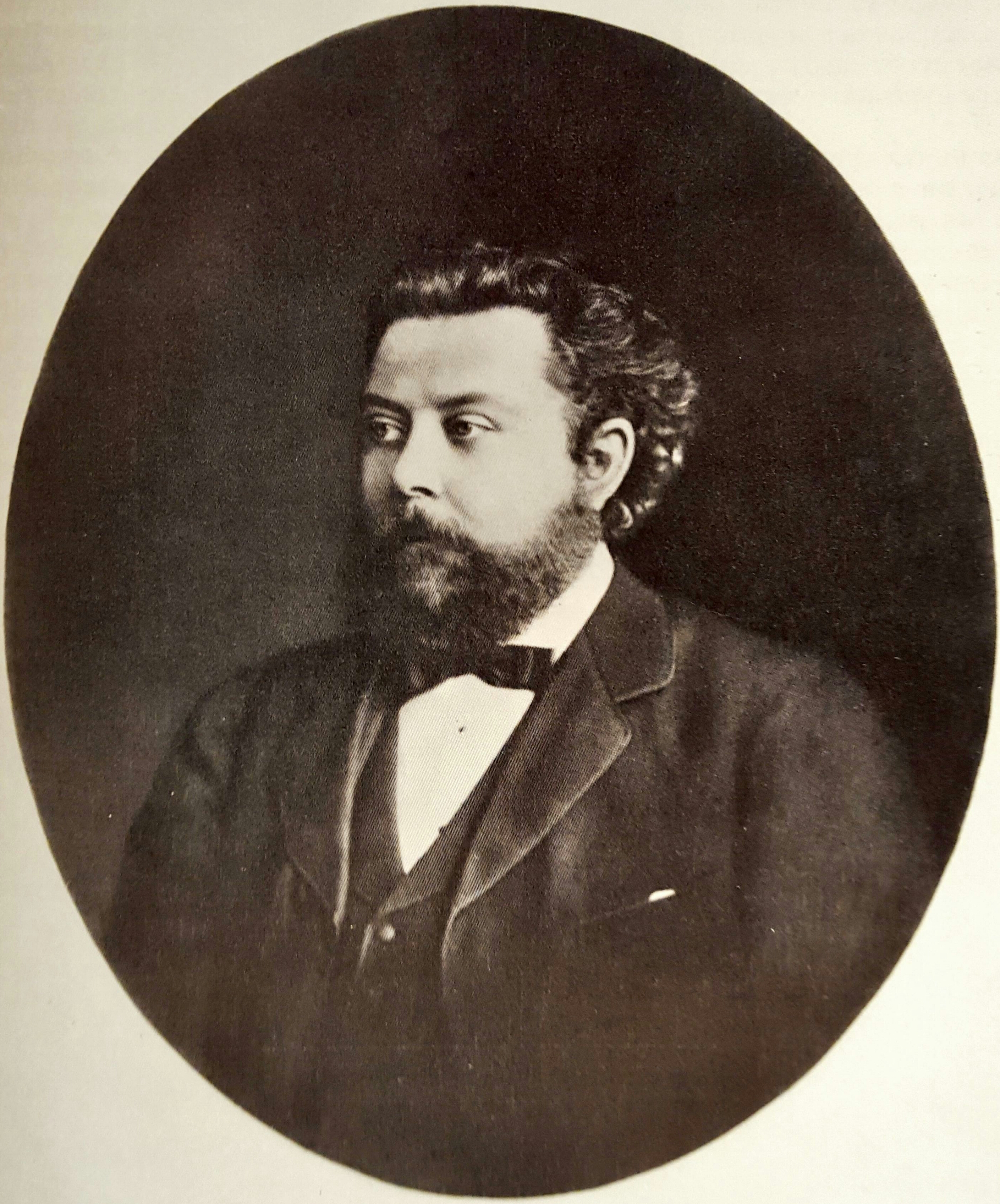 Portrait of Modest Musorgskiy, 1876